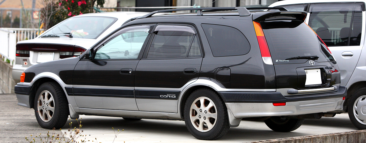 Toyota Sprinter Carib ( AE111G )